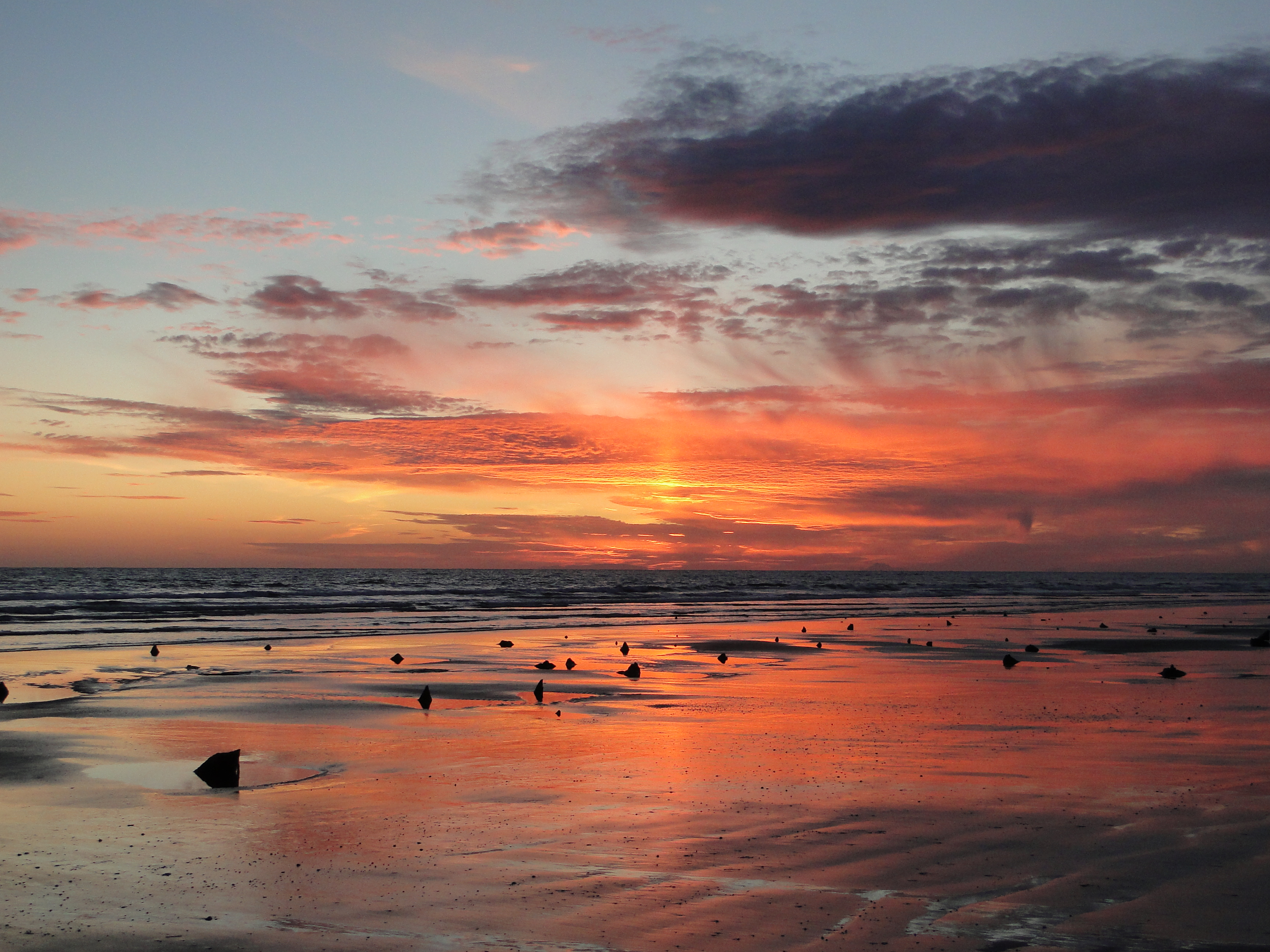 Submerged forest exposed at low tide on Borth sands near Ynyslas, Ceredigion, Wales, The stumps are the remains of an ancient submerged forest that extends along the Ceredigion and Pembrokeshire coast. They are only exposed in a few places at low tide, in places such as Borth and Ynyslas. At Whitesands Bay, Pembrokeshire, they are only visible at very low (neap) tides